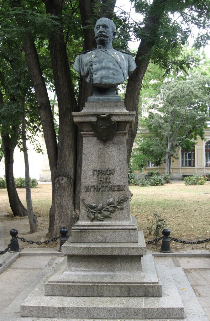 Monument to Nikolay Pavlovich Ignatyev in Varna, Bulgaria.